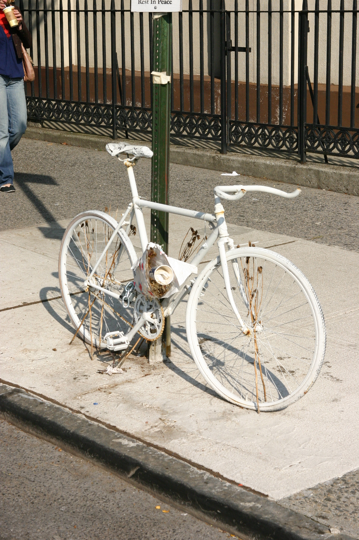 This photo is of Wikis Take Manhattan goal code R16, Ghost bike.